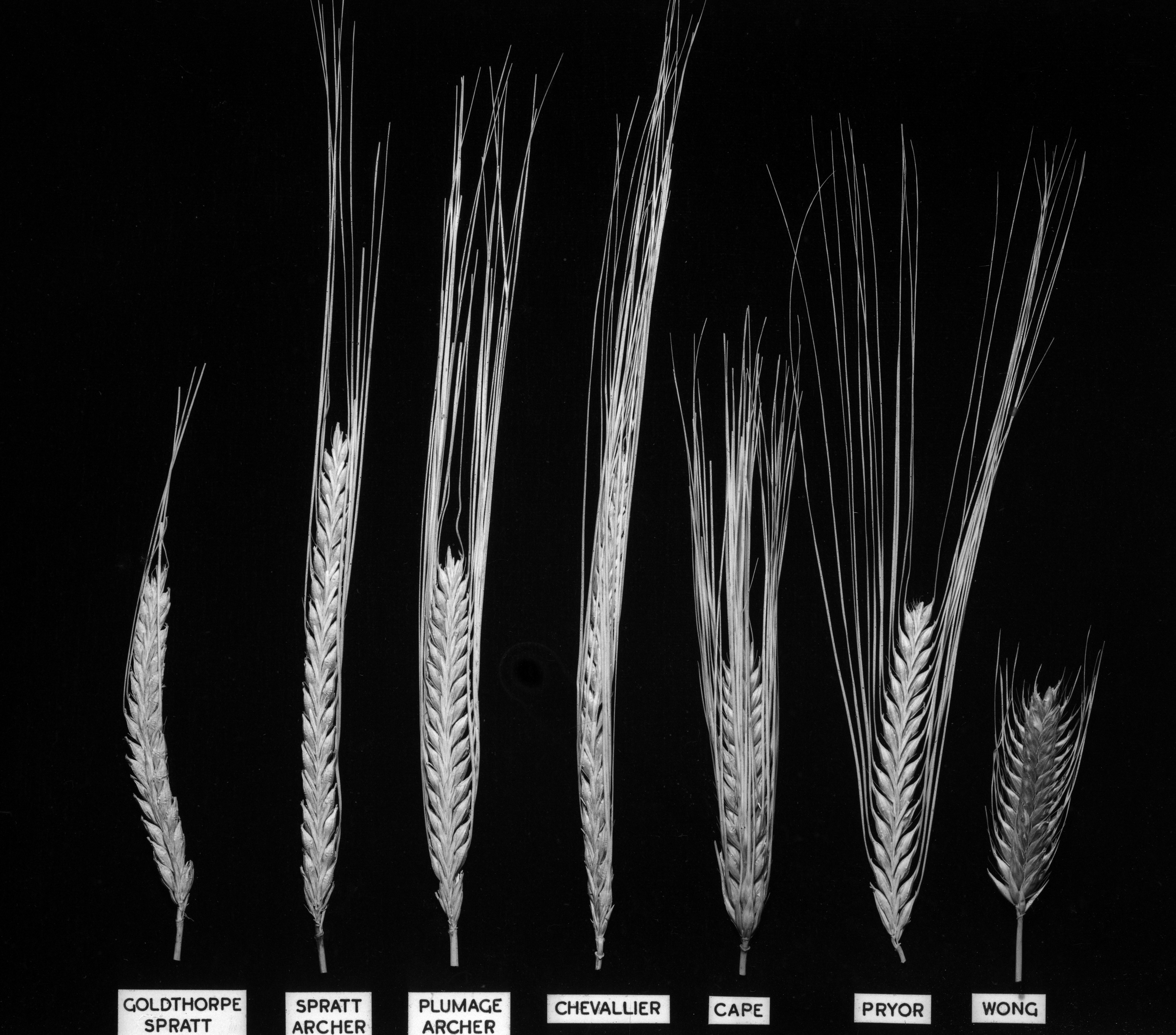 Canterbury Agricultural College research showing seven varieties of barley